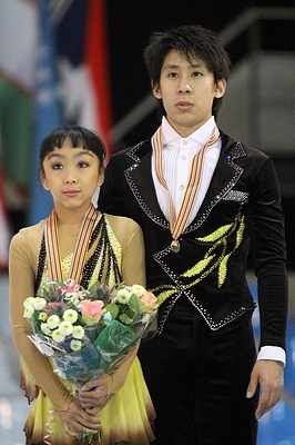 Sui Wenjing and Han Cong at the 2010 World Junior Figure Skating Championships